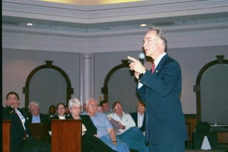 Roswell Town Hall Meeting